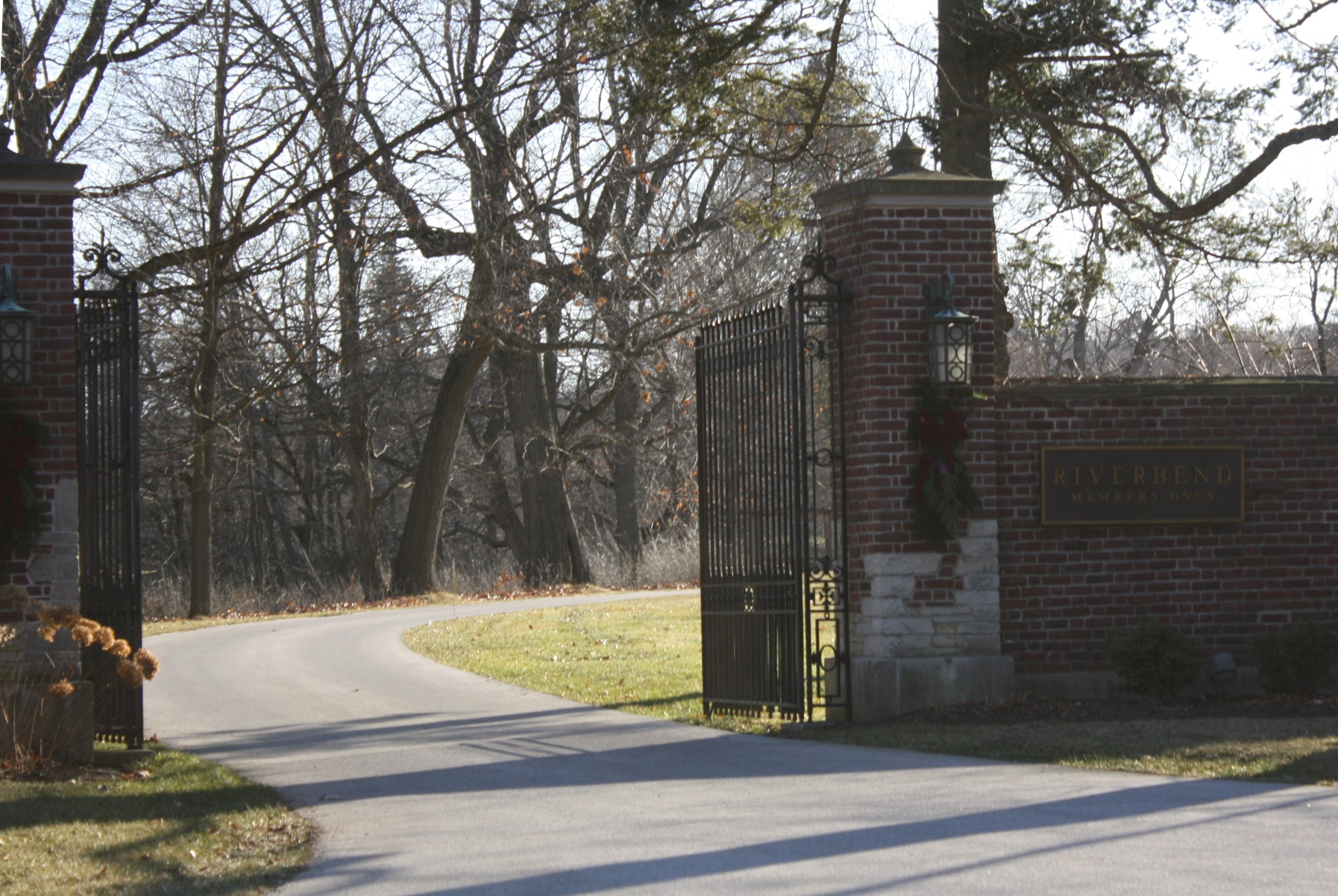 Riverbend in Kohler, Wisconsin. It is listed on the National Register of Historic Places.